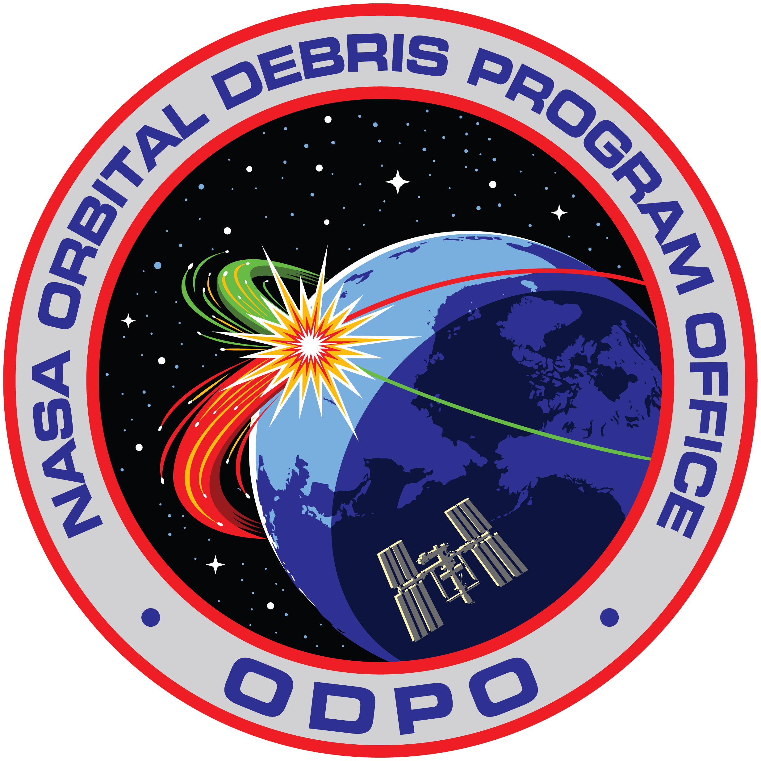 NASA Orbital Debris Program Office logo. The Orbital Debris Program Office (ODPO) logo includes a symbolic representation of two satellites colliding in low Earth orbit. The International Space Station appears at the bottom of the figure as it orbits the Earth. The NASA ODPO has taken the international lead in conducting measurements of the environment and in developing the technical consensus for adopting mitigation measures to protect users of the orbital environment.